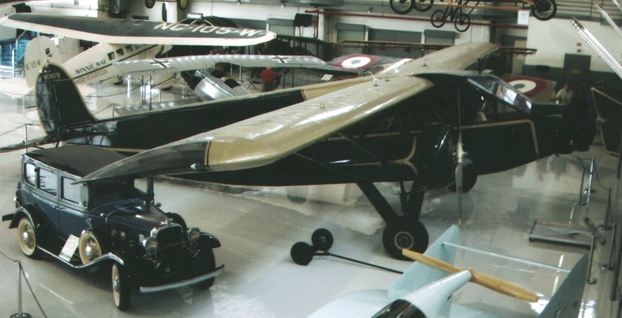 Stinson SM-6000B Trimotor NC11170 at the Weeks Museum, Polk City, Florida